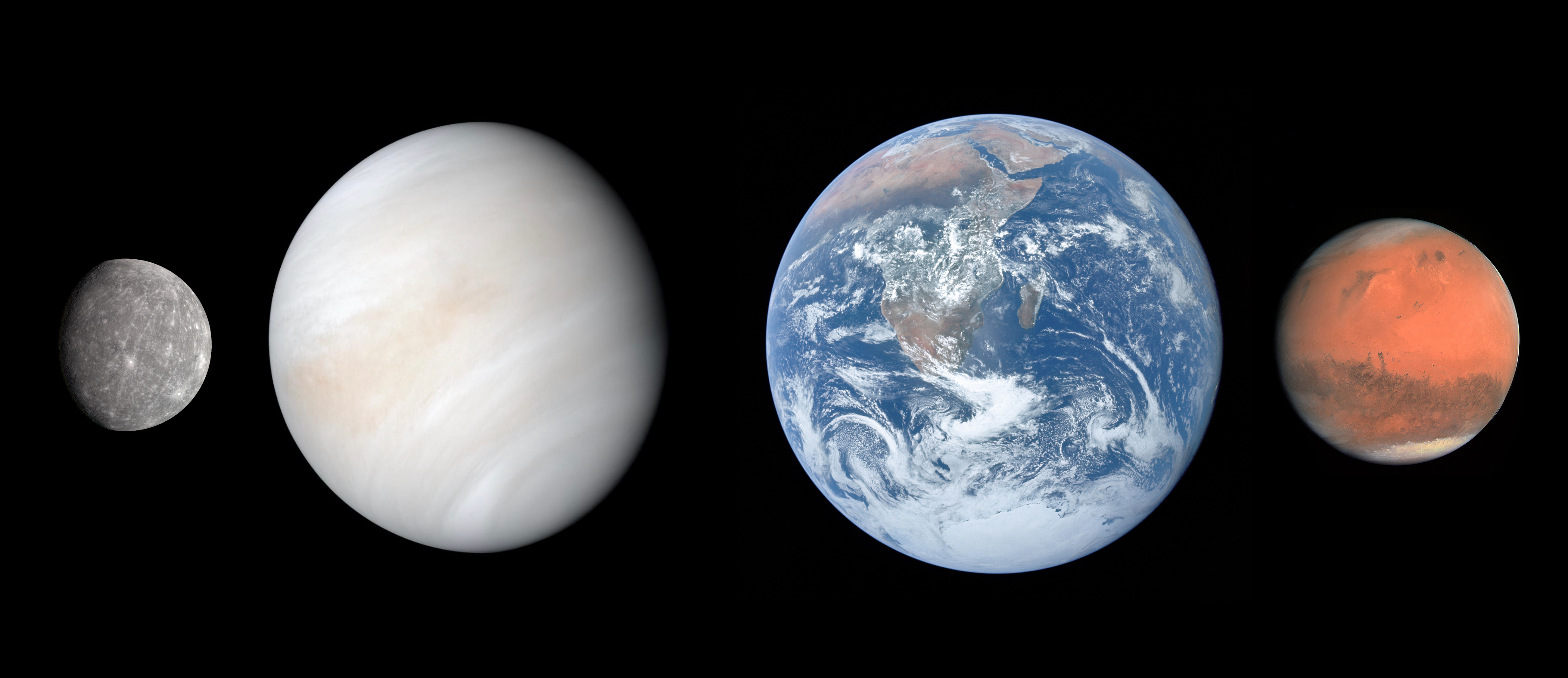 This diagram shows the approximate relative sizes of the terrestrial planets, from left to right: Mercury, Venus, Earth and Mars. Distances are not to scale. A terrestrial planet is a planet that is primarily composed of silicate rocks. The term is derived from the Latin word for Earth, "Terra", so an alternate definition would be that these are planets which are, in some notable fashion, "Earth-like". Terrestrial planets are substantially different from gas giants, which might not have solid surfaces and are composed mostly of some combination of hydrogen, helium, and water existing in various physical states. Terrestrial planets all have roughly the same structure: a central metallic core, mostly iron, with a surrounding silicate mantle. Terrestrial planets have canyons, craters, mountains, volcanoes and secondary atmospheres.